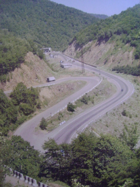 Rikoti Pass